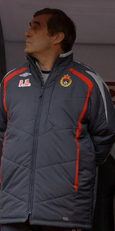 Vladimir Shevchuk as a coach of PFC CSKA Moscow